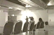 Image of rehersals